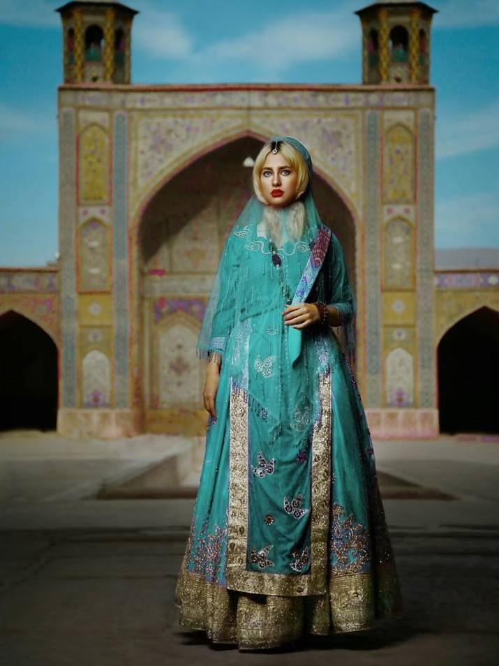 پوشش لری مناطق ممسنی و کهگیلویه و بویراحمد و لرهای جنوبی